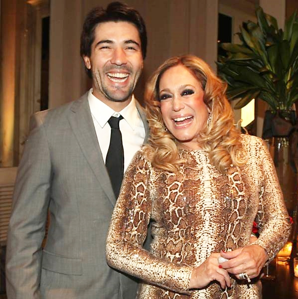 Susana Viera e Sandro Pedroso